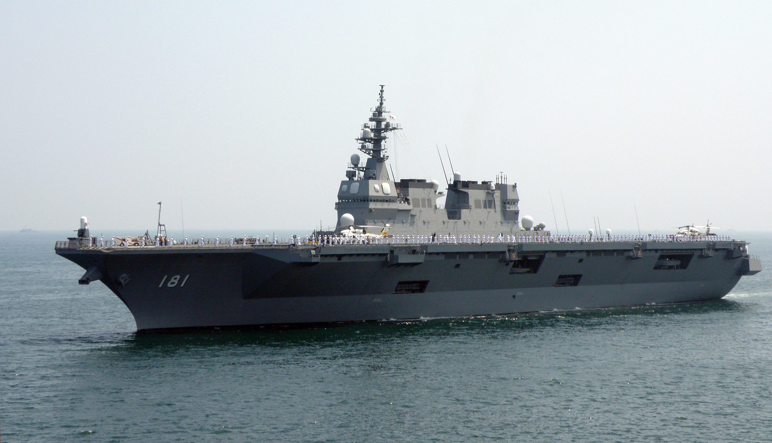 Ceremonial deck assembly aboard the JDS Hyūga (DDH-181). 2010 Ise Bay "Marine Festa" [festival]. Olympus SP-570UZ